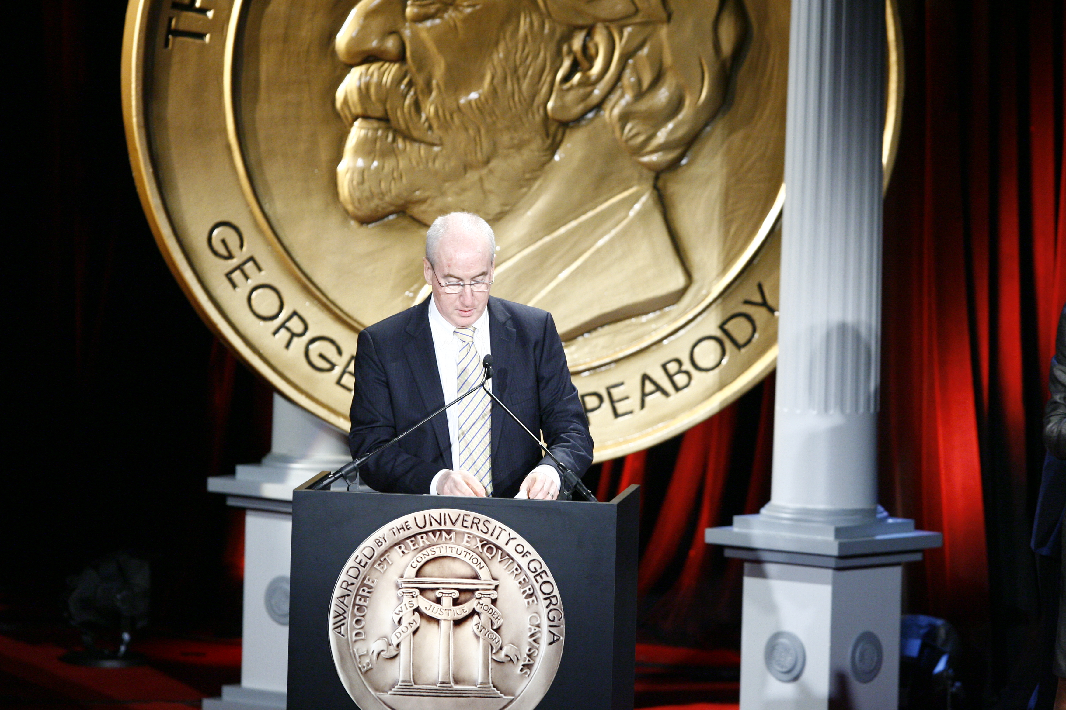 PHOTO CREDIT: ANDERS KRUSBERG / PEABODY AWARDS Henry Schuster 69th Annual Peabody Awards Luncheon Waldorf=Astoria Hotel New York, NY USA May 17, 2010